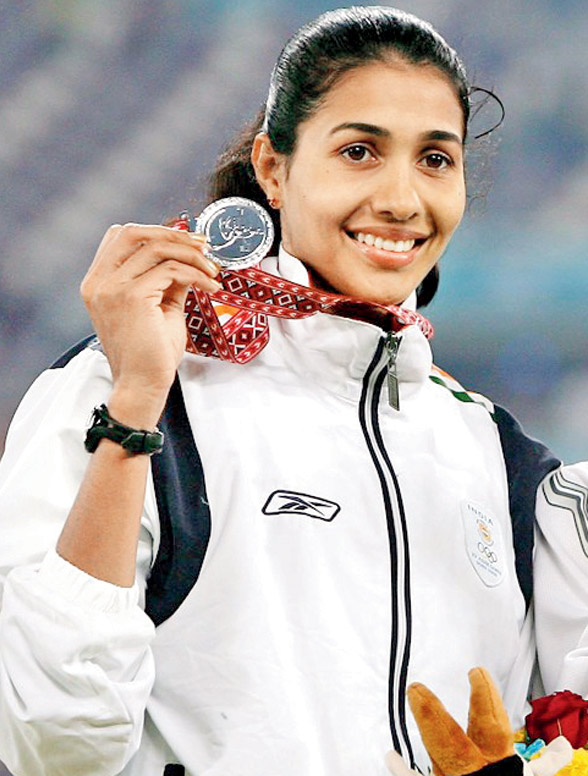 Anju Bobby George at Doha Asiad, December 2006